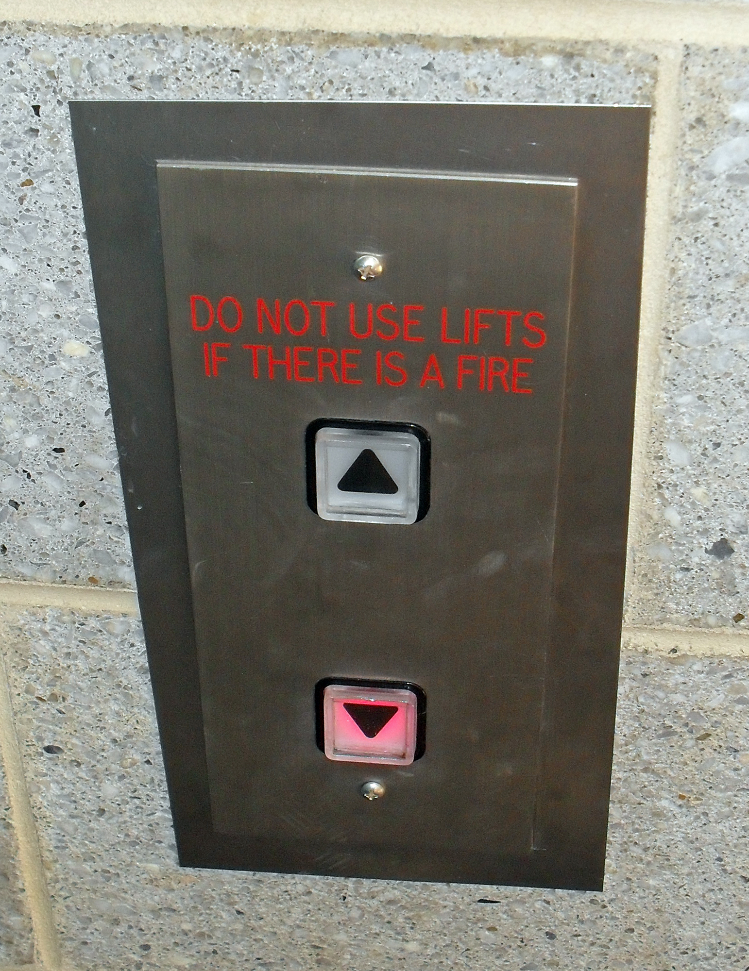 An external lift control panel.